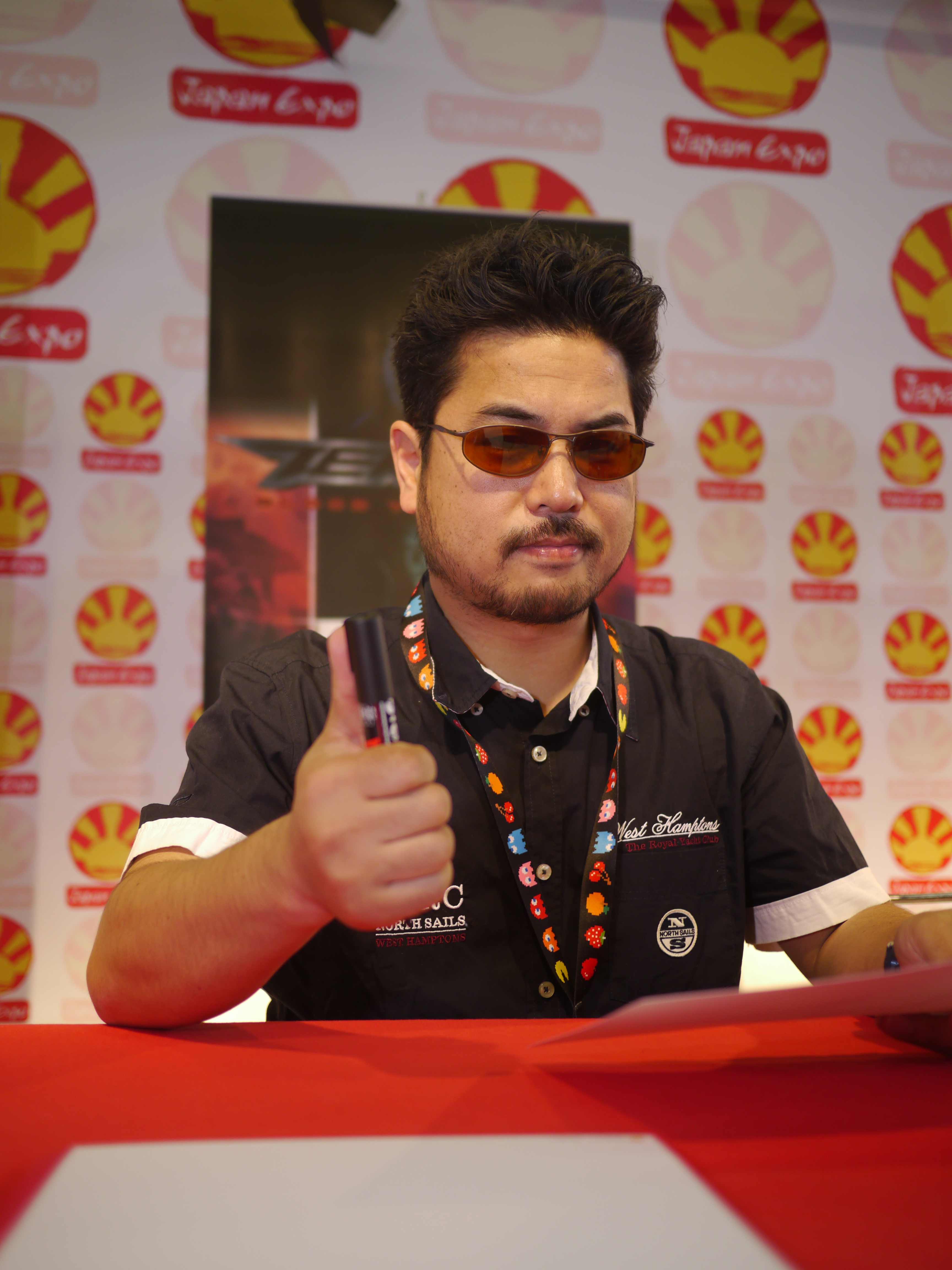 Japan Expo Festival, 12th impact